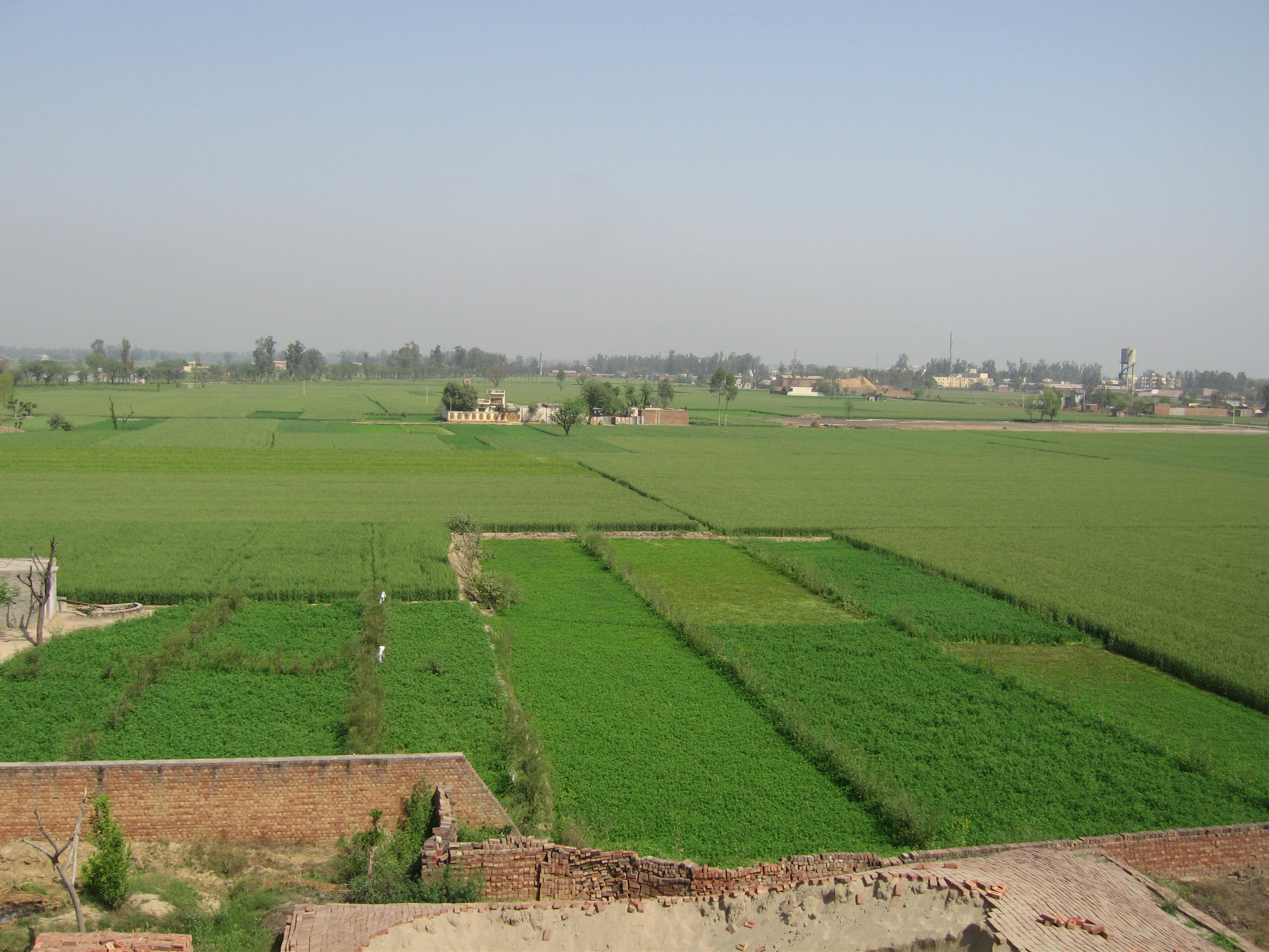 Farming, farms, crops, agriculture in North India Villages and rural homes